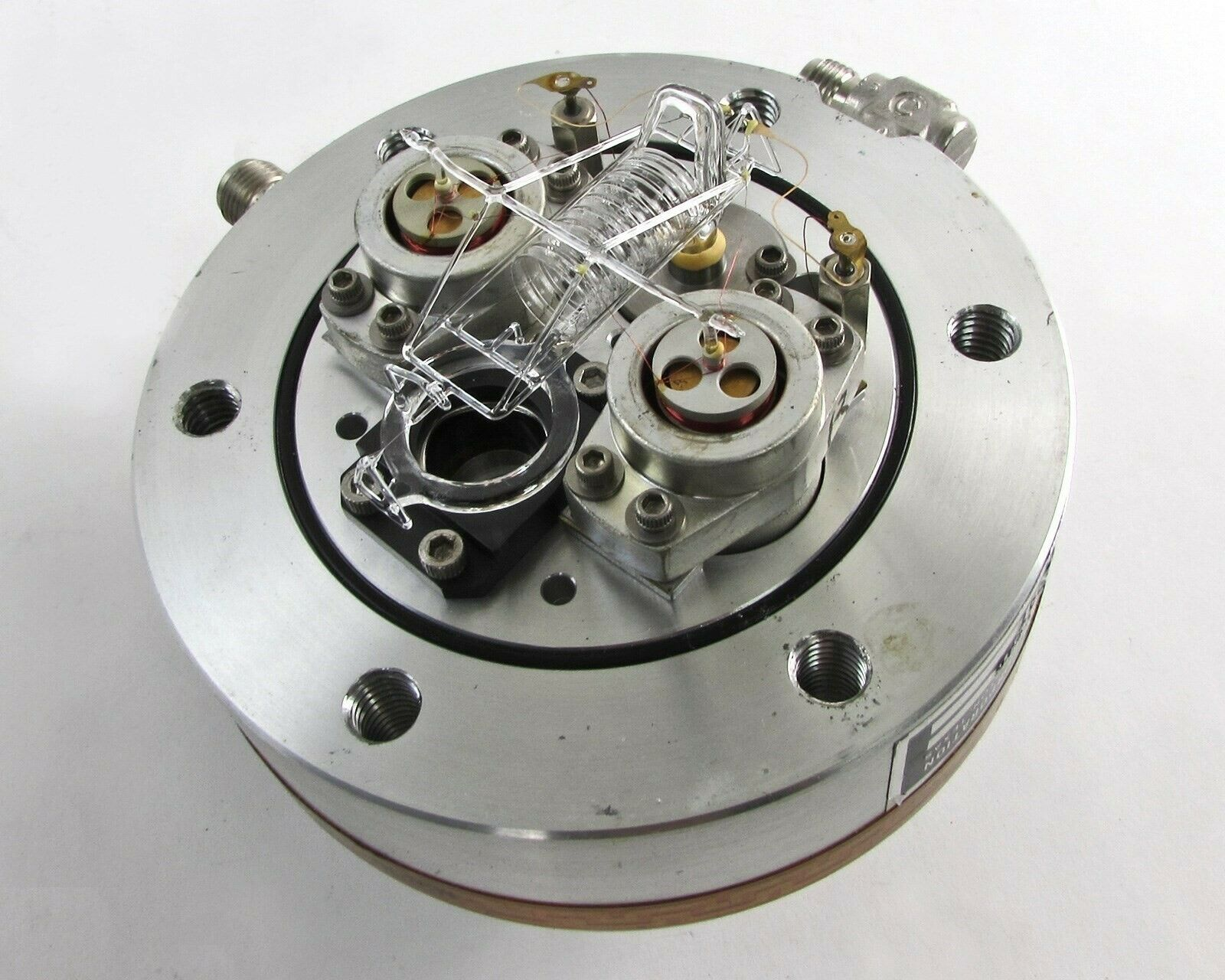 A force-balanced fused quartz bourdon tube pressure sensor. Ruska Instrument - Cat. No. 10